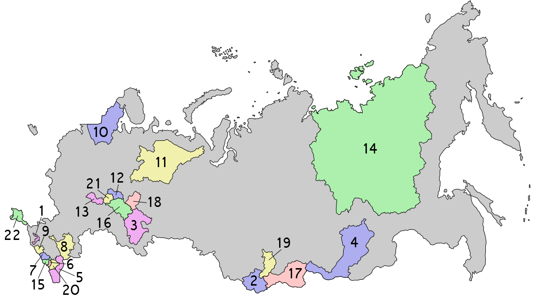 Modified from User:Cantus's original (credit to User:Morwen) by User:Kudzu1